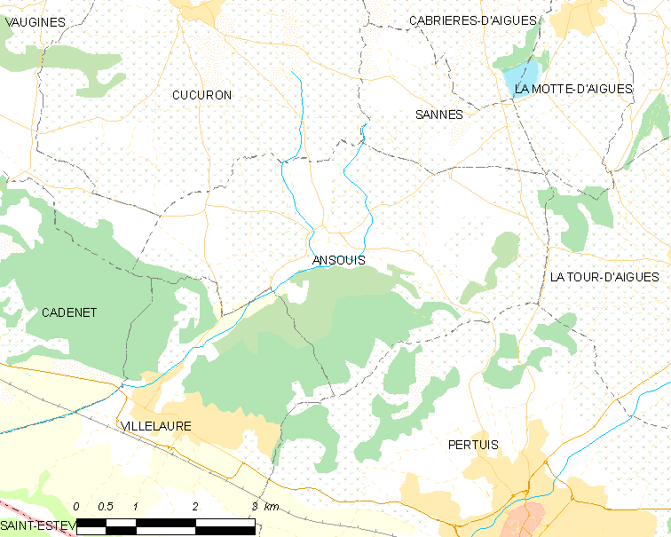 Map of French municipality Ansouis